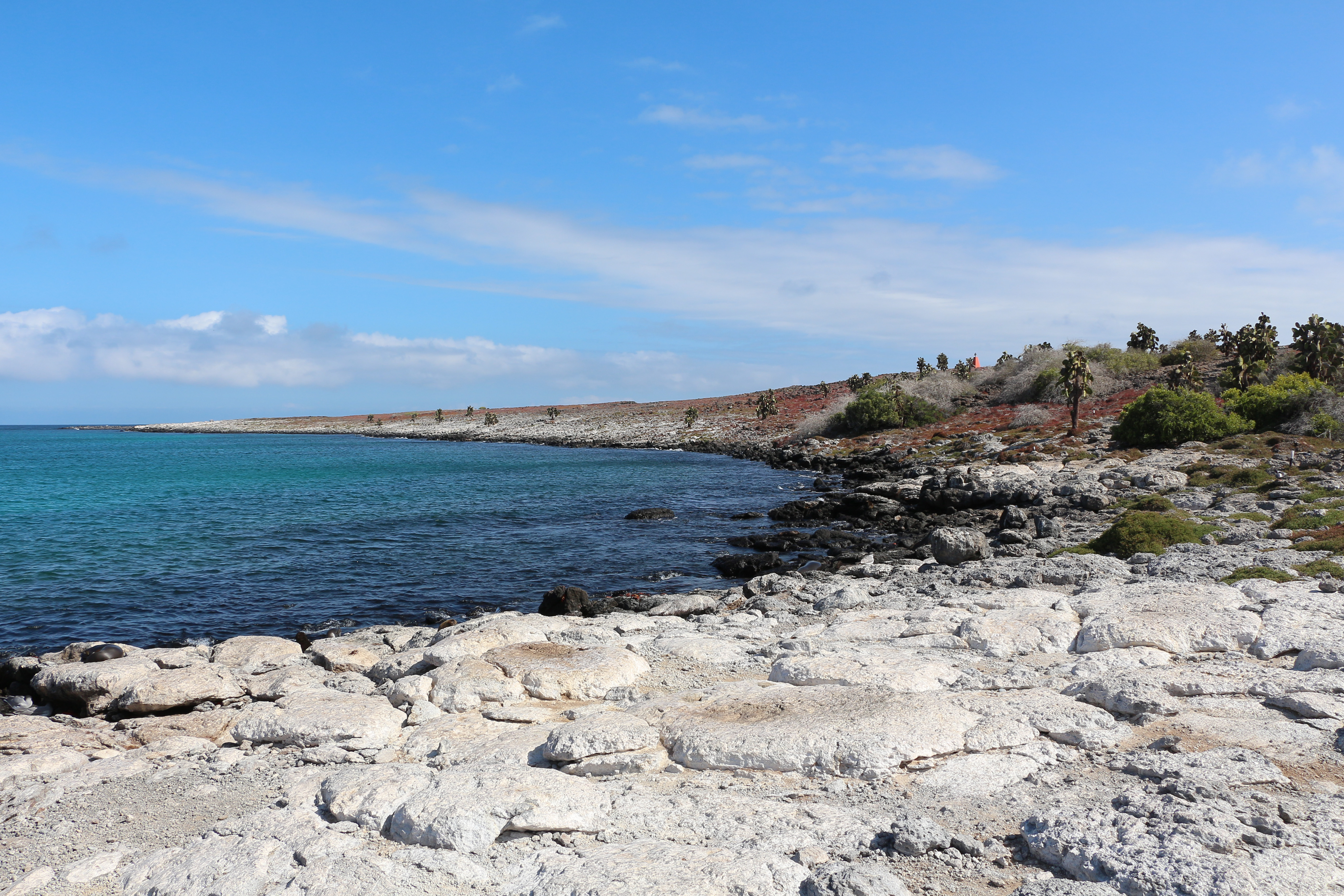 South Plaza Island, Galápagos National Park, Ecuador